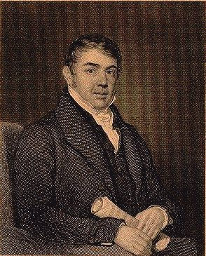 Portrait of George Frederick Perry, victorian musician and composer